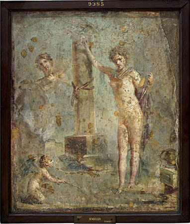 In National Archaeological Museum, Naples